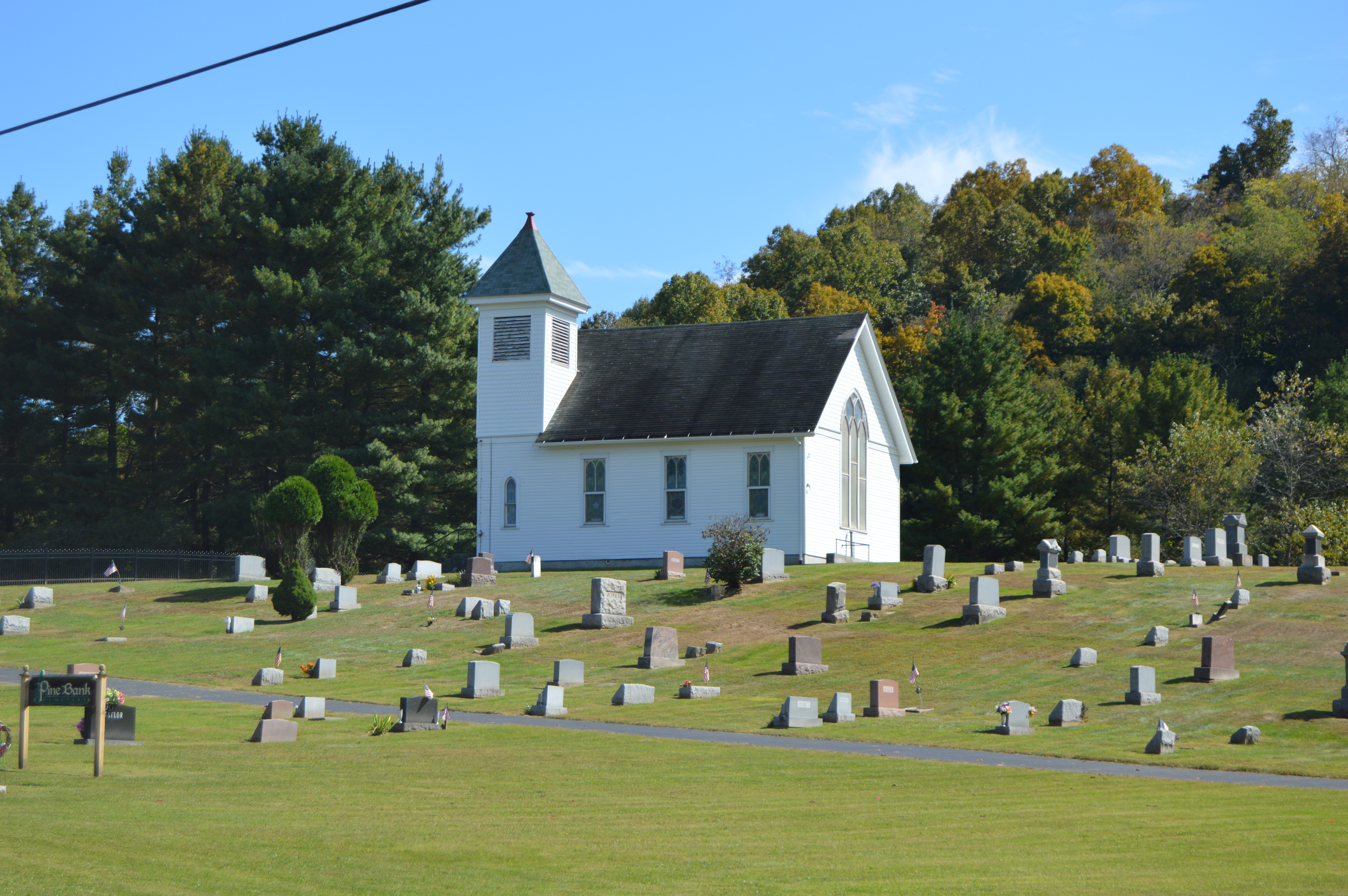 Roadside view of the Pine Bank United Methodist Church, located on the southern side of Toms Run Road at the Tustin Run Road intersection northwest of Brave in Gilmore Township, Greene County, Pennsylvania, United States.